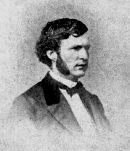 Mark Twain with no mustache